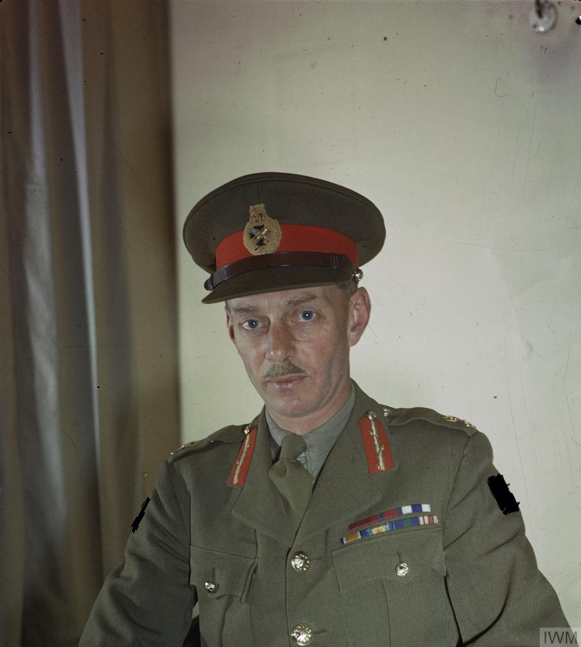 Lieutenant General M C Dempsey, Cb, Dso, Mc, Commander in Chief, British Second Army, April 1944 Half length portrait of Lieutenant General Dempsey, wearing hat.